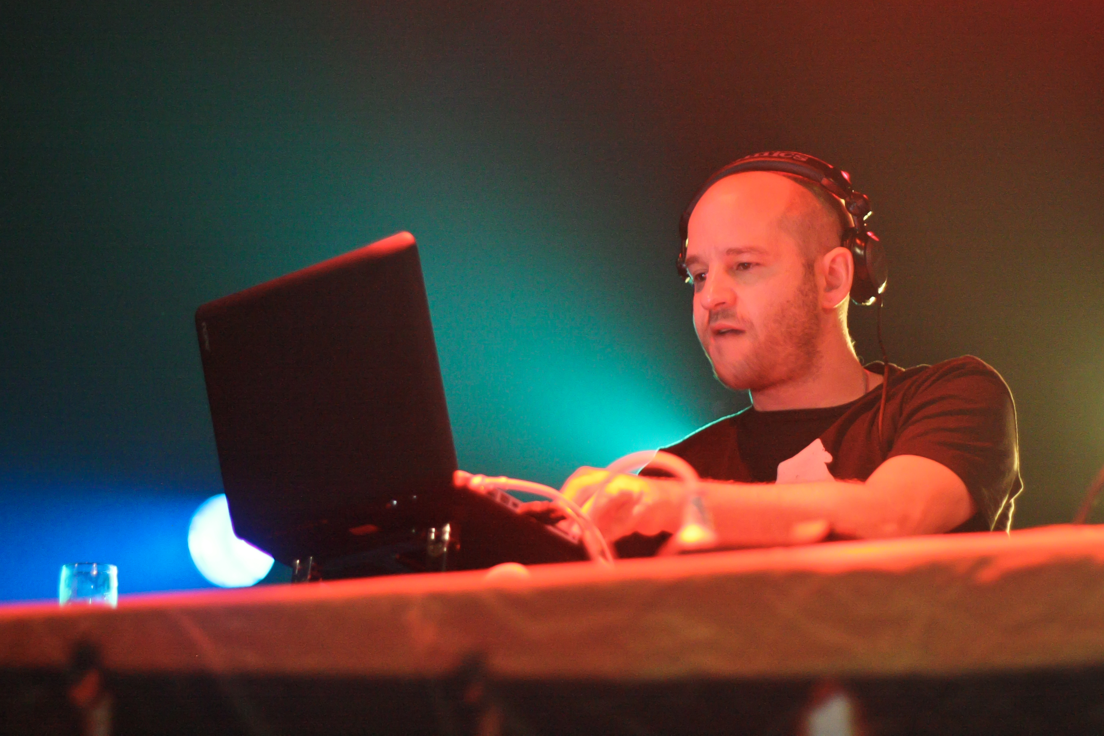 DJ Thomilla at republic Salzburg